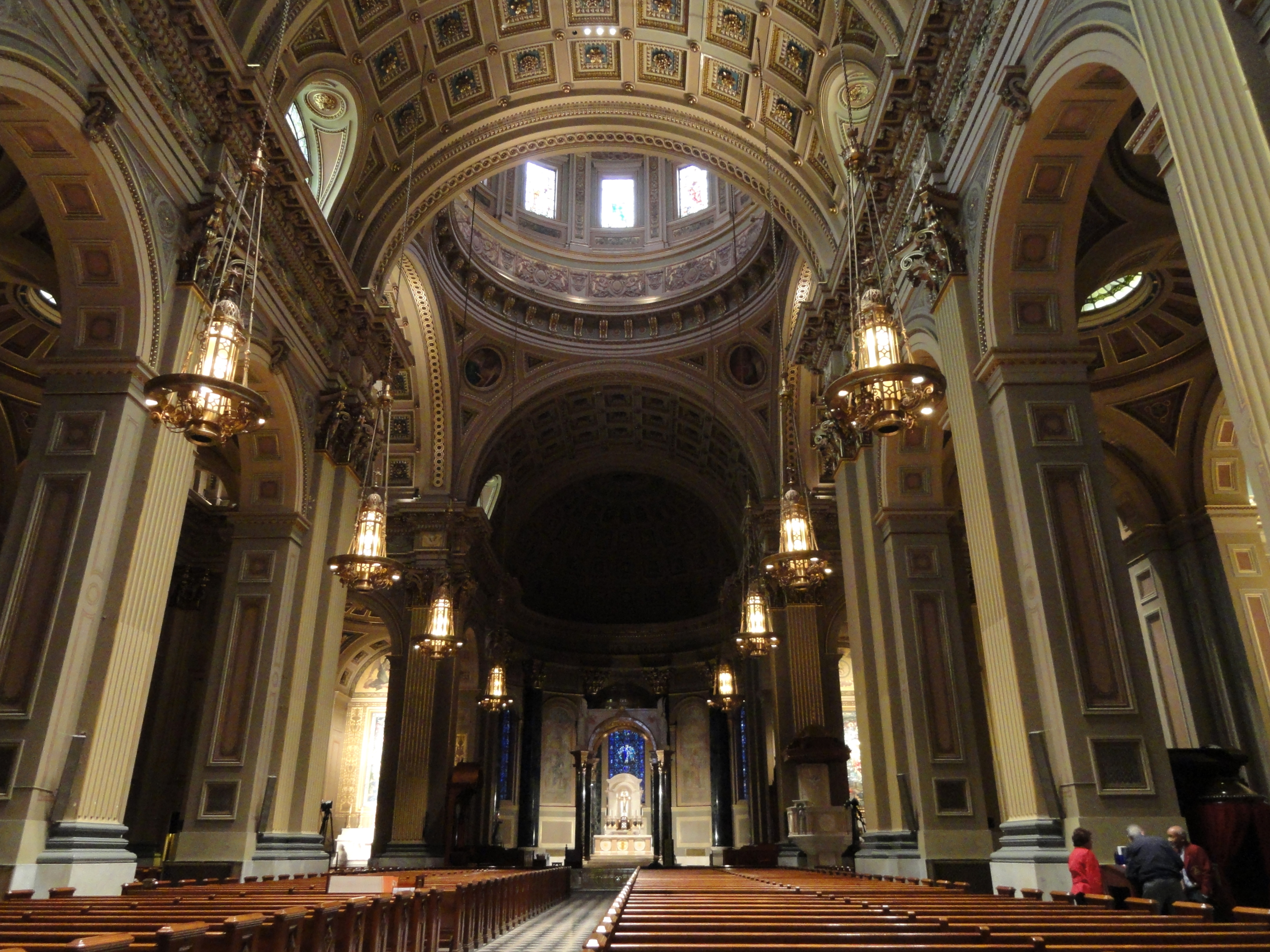 Cathedral Basilica of Saints Peter and Paul, Philadelphia, Pennsylvania, USA. Completed in 1864; architects John Notman and Napoleon Eugene Henry Charles Le Brun.